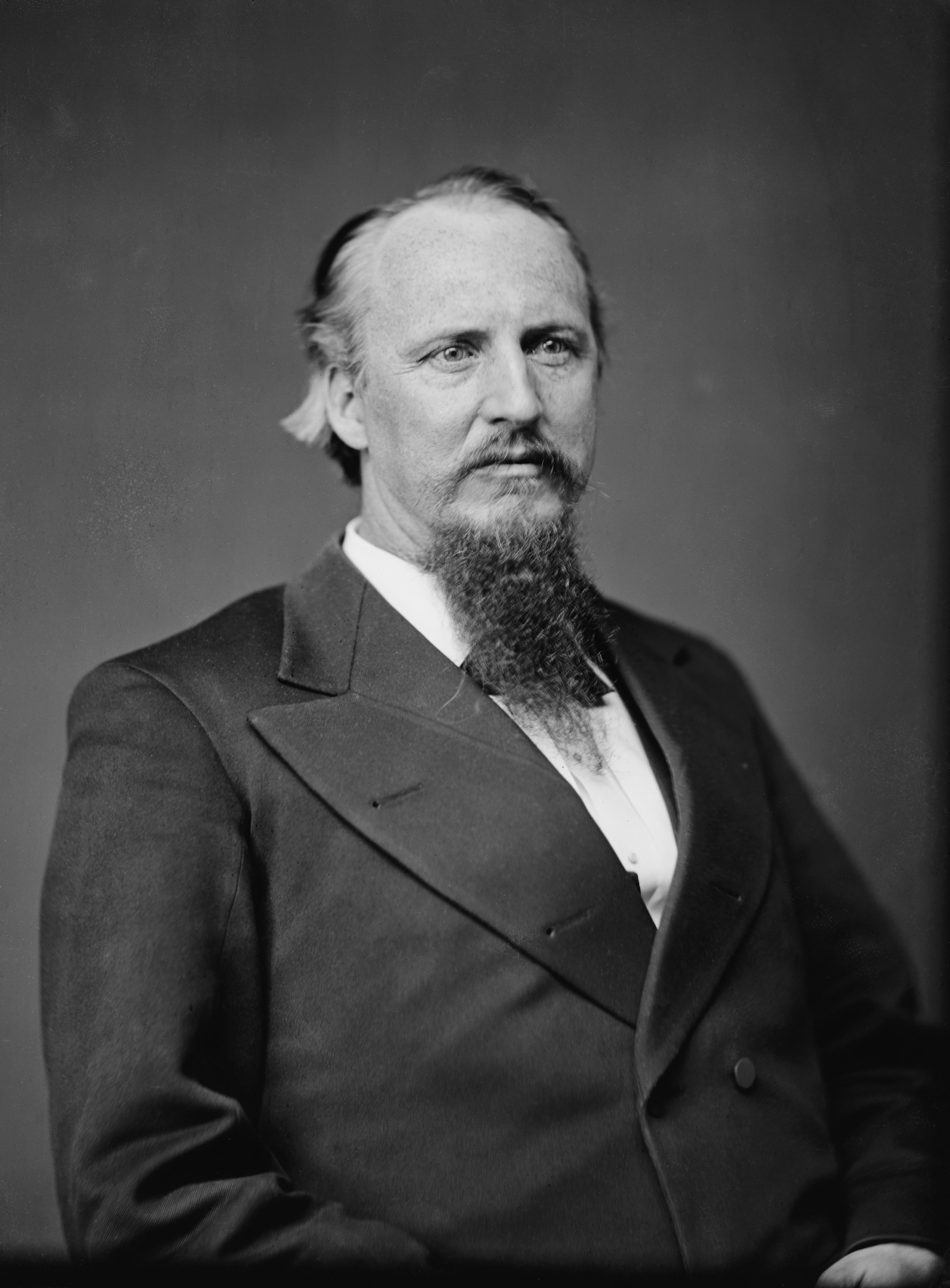 Francis Cockrell. Library of Congress description: "Cockrell, Hon. Francis Marion of Mo. Brig. General in Confederate Army"